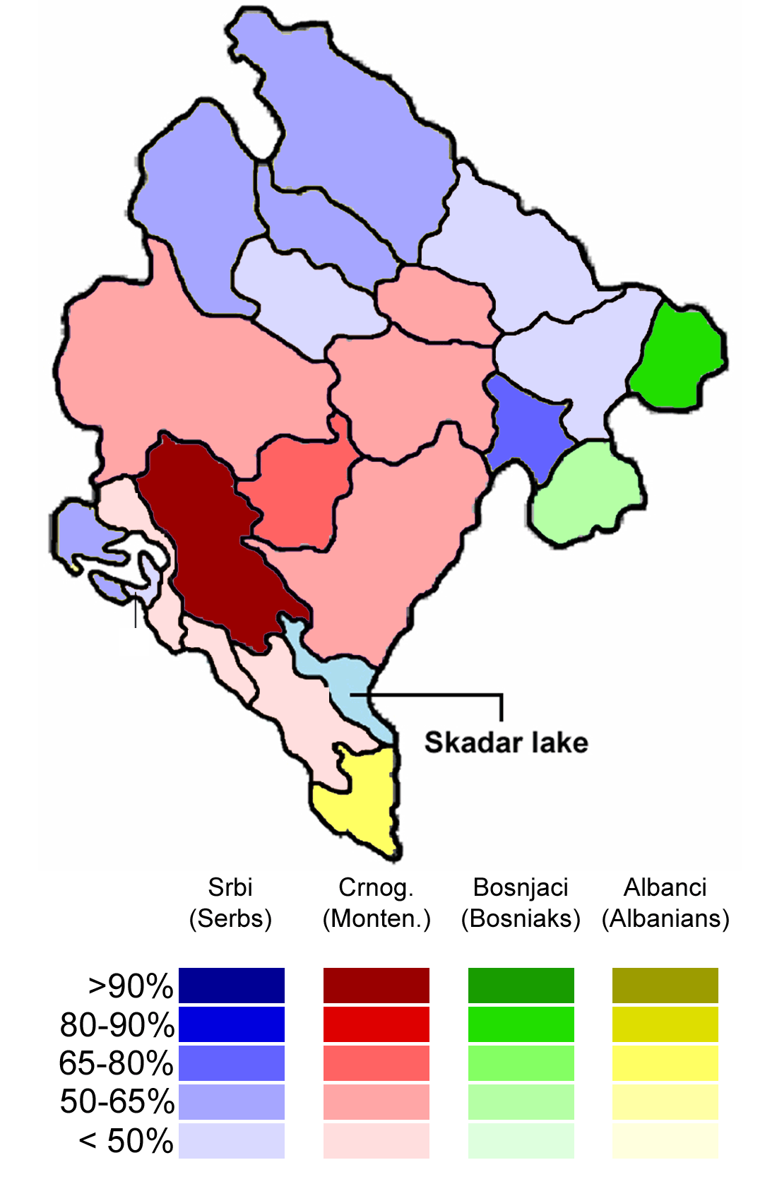 Ethnic map of Montenegro, with different colors for various percentages of majority, based on 2003 census data